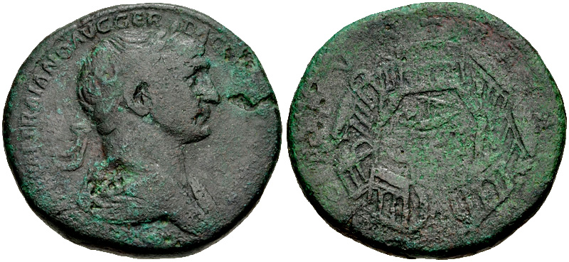 Trajan. AD 98-117. Æ Sestertius (33mm, 23.35 g, 6h). Rome mint. Struck AD 106-111. Laureate and draped bust right PORTVM TRAIANI, basin of Trajans harbor, surrounded by warehouses and ships in center. RIC II 632.